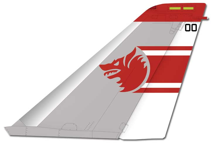 The tail of a US Navy F-14A Tomcat, belonging to VF-1, the "Wolfpack". Original created in Adobe Photoshop by Erik Hess in 2004.